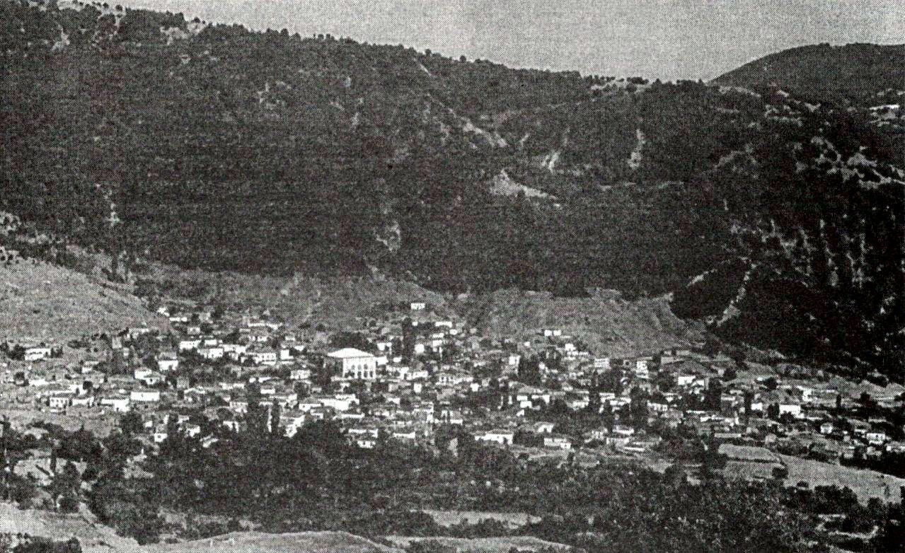 village of Zagorichani (mk: Загоричани, gr: Βασιλειάδα) in Aegean part of Macedonia